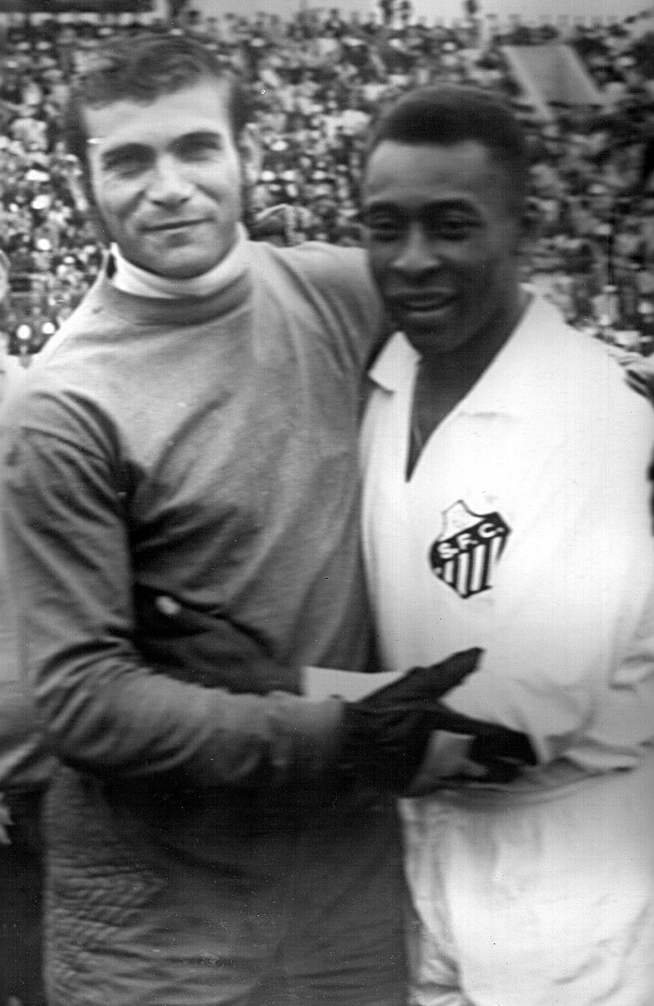 Arturo Galarza y Pelé antes del encuentro entre el Santos y el Bolivar